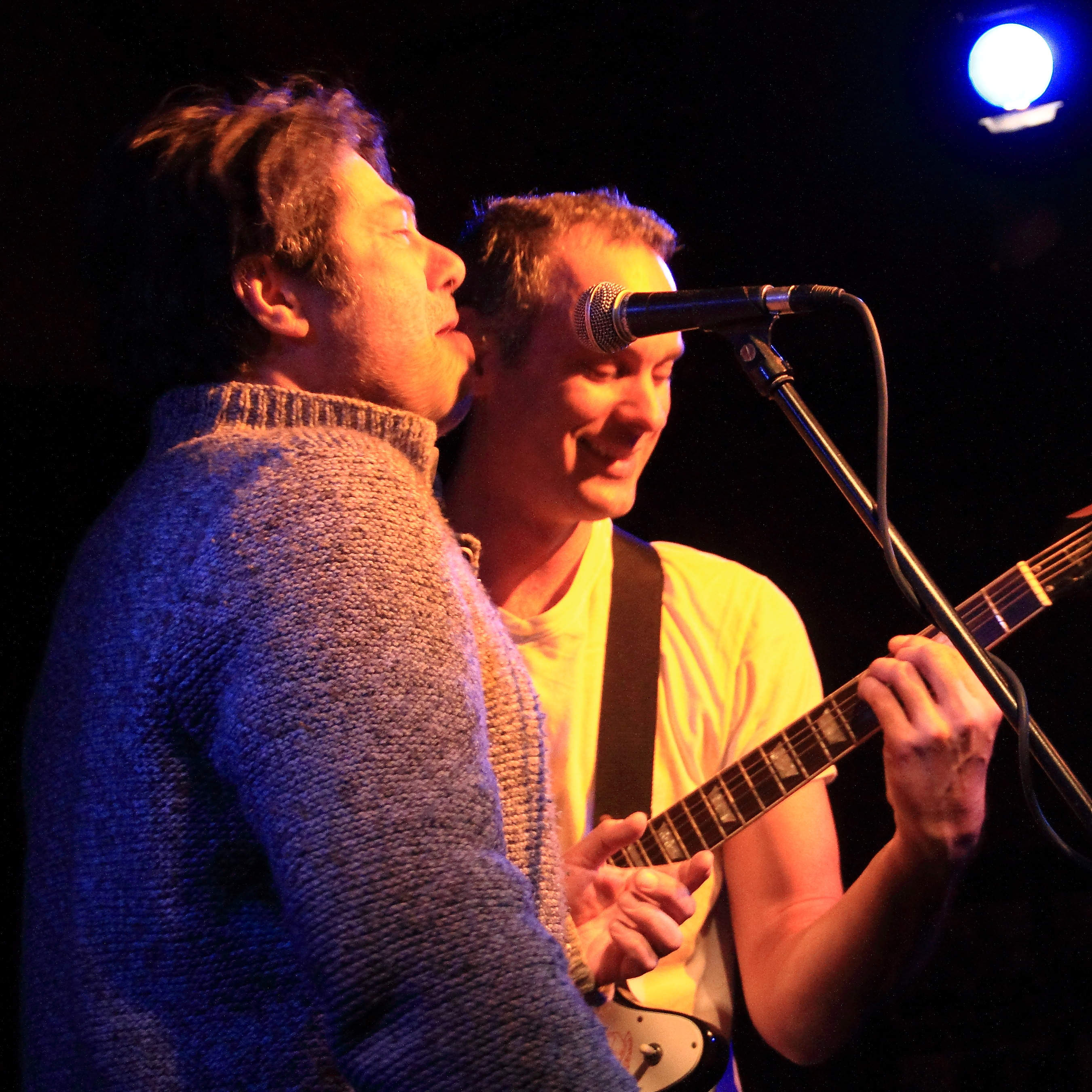 Shane de Leon aka Miss Massive Snowflake and Felix "Schlockmaster" Weber as Human Beatbox in concert at Club W71, 2014.